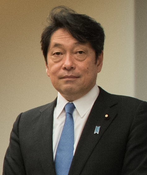 U.S. Secretary of Defense James N. Mattis meets with Japanese Prime Minister Shinzō Abe at the Prime Minister's official residence, Kantei, in Tokyo, Japan, June 29, 2018. (DoD photo by Army Sgt. Amber I. Smith)